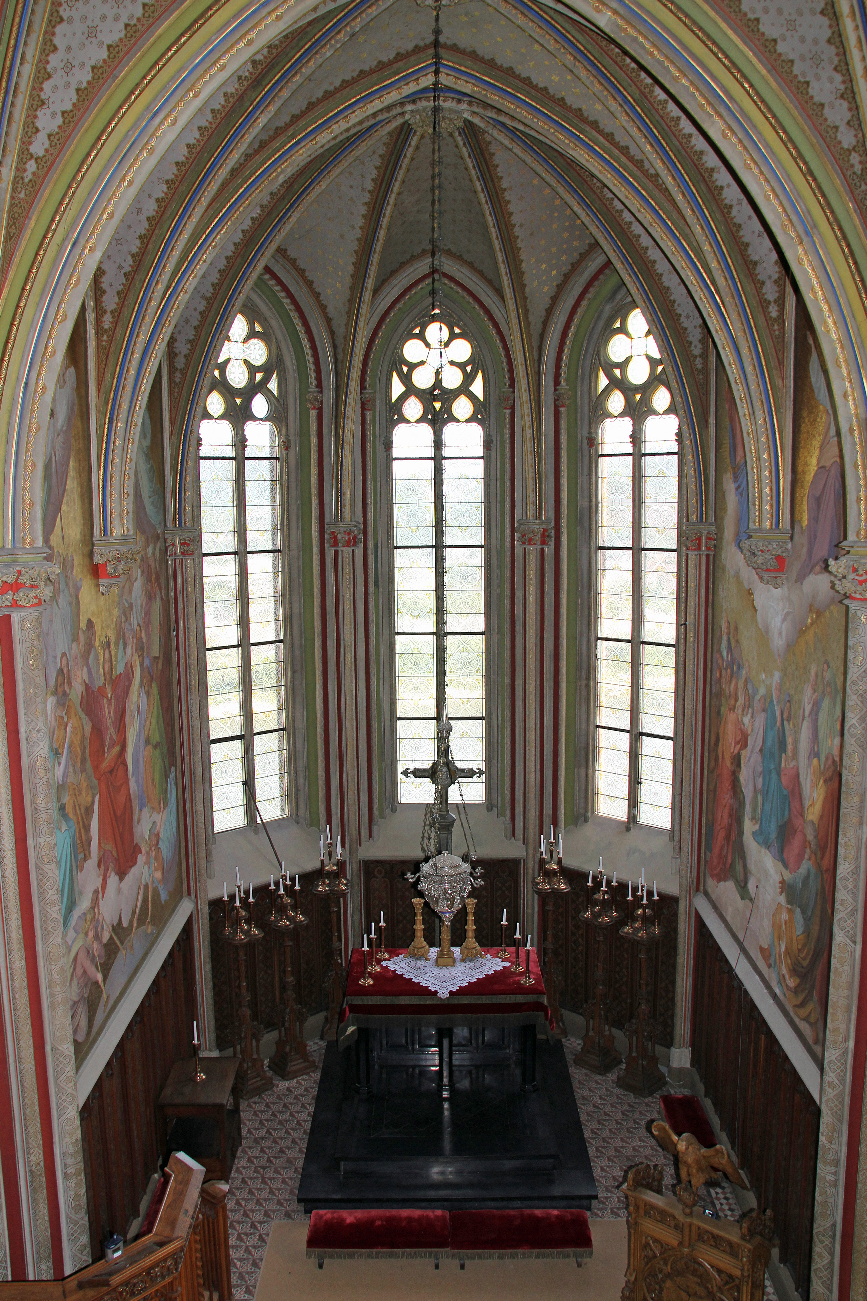 Federal Horticultural Show 2011 in Koblenz - Stolzenfels Castle